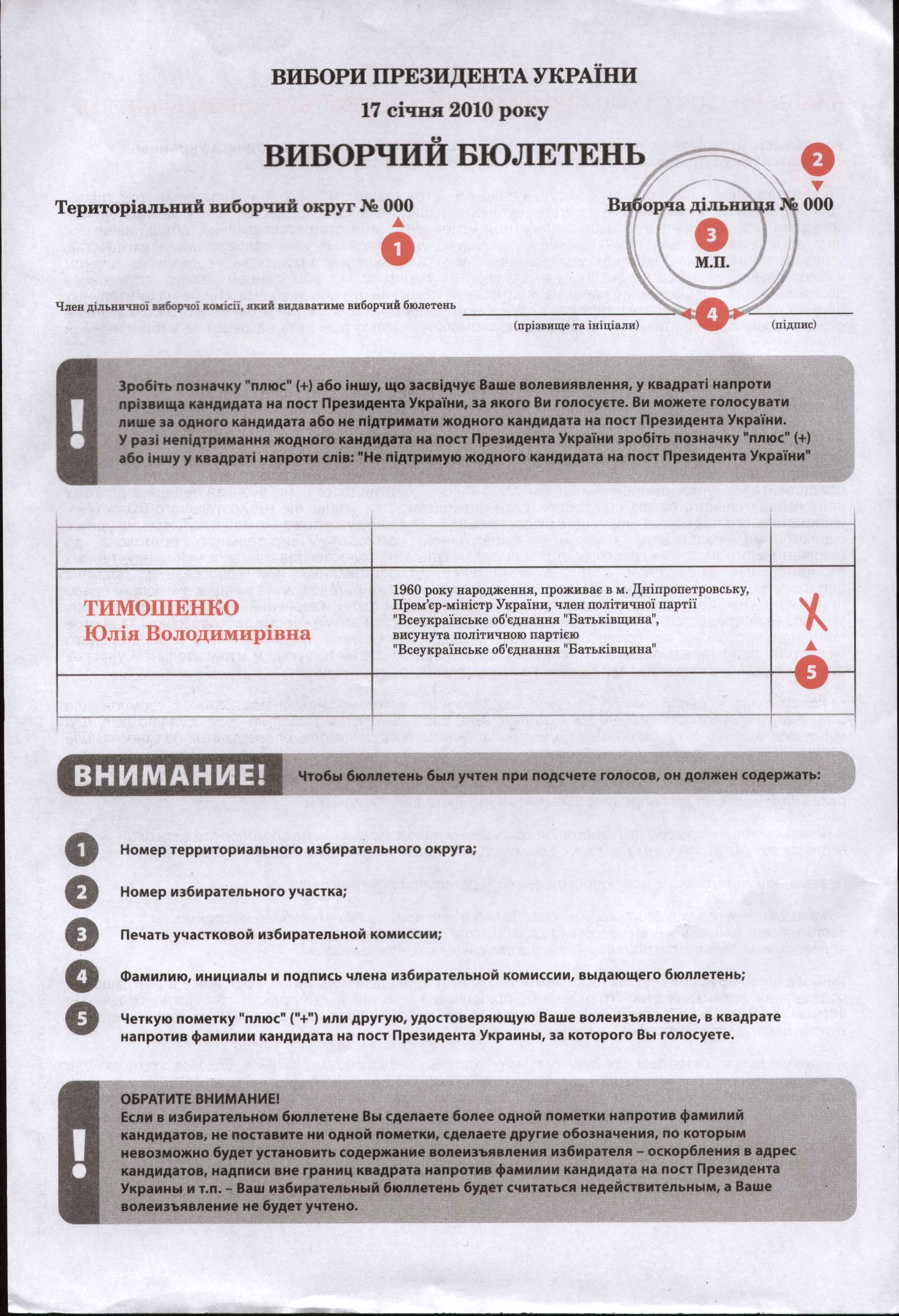 17 jun. 2010 Presidential election of Ukraine, 2010 blank.